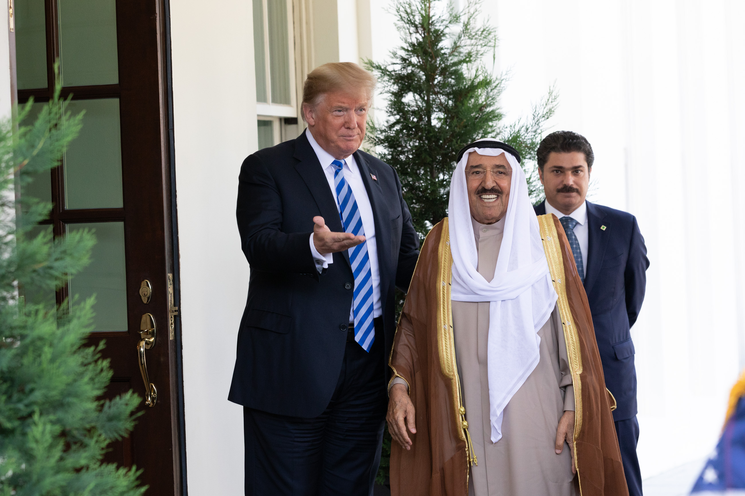 President Donald J. Trump welcomes the Amir of the State of Kuwait to the White House | September 5, 2018